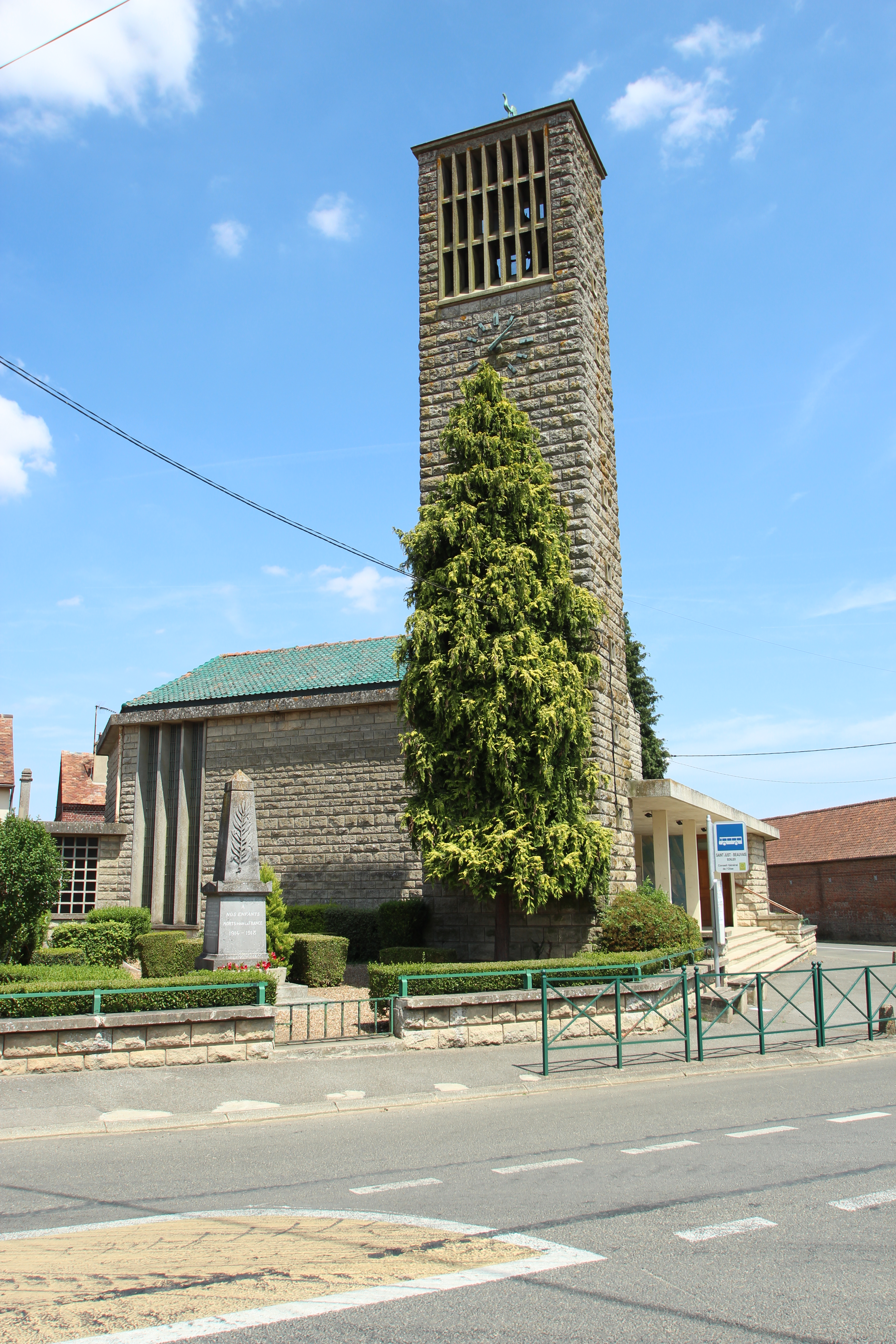 Saint Roch church of Bonlier, France This image was uploaded as part of L'Été des villes 2015.